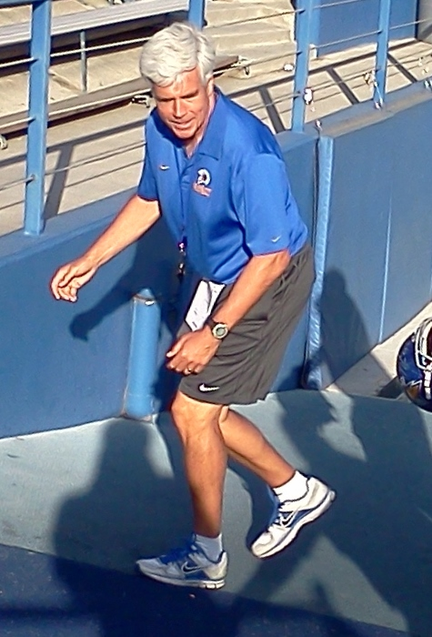 San Jose State defensive coordinator Greg Robinson after the 2014 Spring Game.